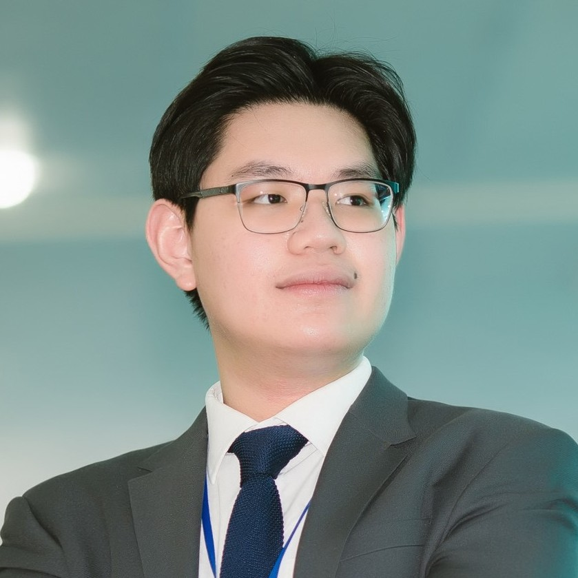 Portrait of Nguyen Le Dong Hai